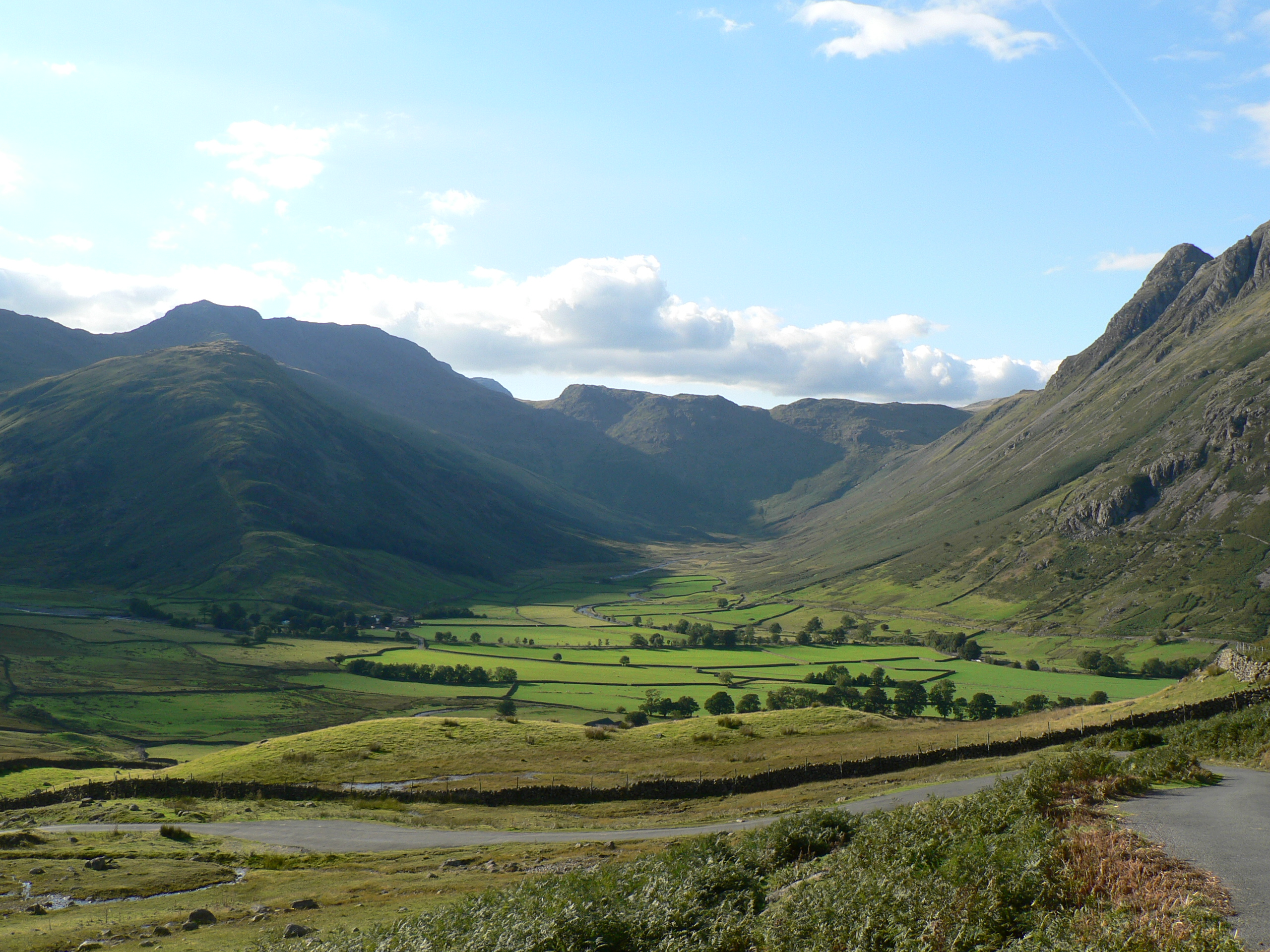 View towards Little Langdale from Great Langdale, Lake District, UK Taken by Jill Sarsfield